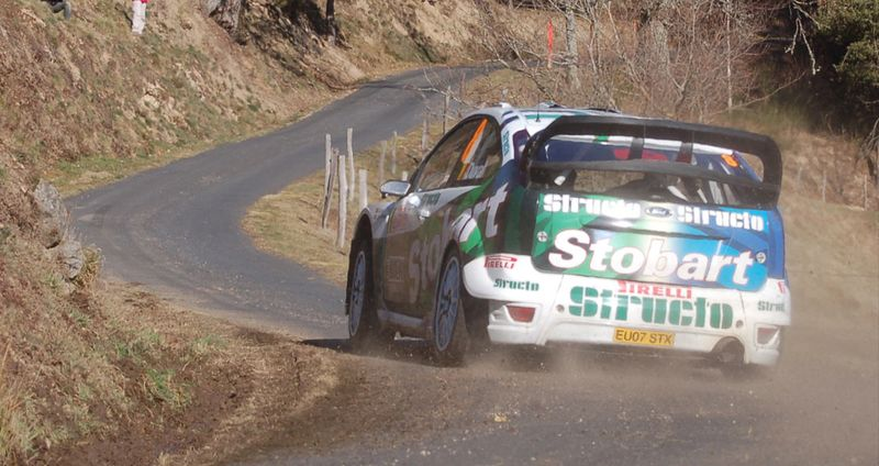 Duval-Chevailler in Rally de Monte-Carlo 2008